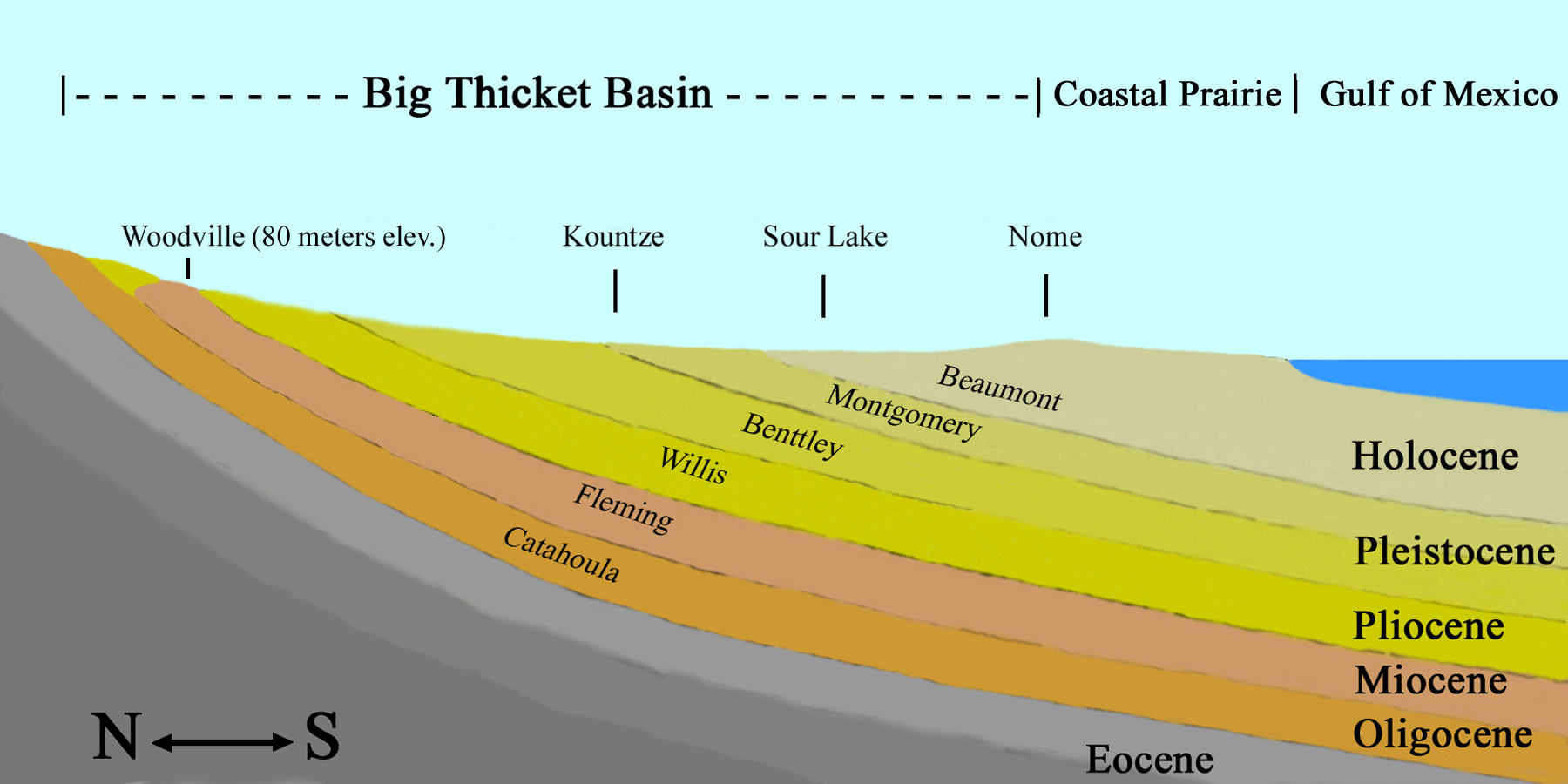 Geological formations (diagonal center) of the Big Thicket Basin and the Epochs in which they were formed (lower right). This is a generalized illustration and it is not accurate in scale or proportion. Current time surface ecosystems (top line): Big Thicket Basin, Coastal Prairie, Gulf of Mexico. Current time transect of towns, north to south (second line): Woodville, Tyler Co. [30.7753°N, 94.4149°W, WGS 84]; Kountze, Hardin Co.; Sour Lake, Hardin Co.; Nome, Jefferson Co. [30.0377°N, 94.4079°W]. Geological Formations (center, diagonal): Beaumont, Montgomery, Benttley, Willis, Fleming, Catahoula. Geological Epochs (lower right): Holocene, Pleistocene, Pliocene, Miocene, Oligocene, Eocene. The Big Thicket Basin is located in southeast Texas, USA, including all of Hardin County and parts of Jasper, Jefferson, Liberty, Orange, Polk, and Tyler Counties. The information in this illustration is derived from - Fritz, Edward C. (1993) Realms of Beauty: A Guide to the Wilderness Areas of East Texas, revised edition. University of Texas Press, Austin. 120 pp. ISBN 0-292-72479-9. Watson, Geraldine Ellis (2006) Big Thicket Plant Ecology: An Introduction, Third Edition (Temple Big Thicket Series #5). University of North Texas Press. 152 pp. ISBN 978-1574412147. Geology of Texas, Bureau of Economic Geology, The University of Texas, Austin Accessed 7 December 2019